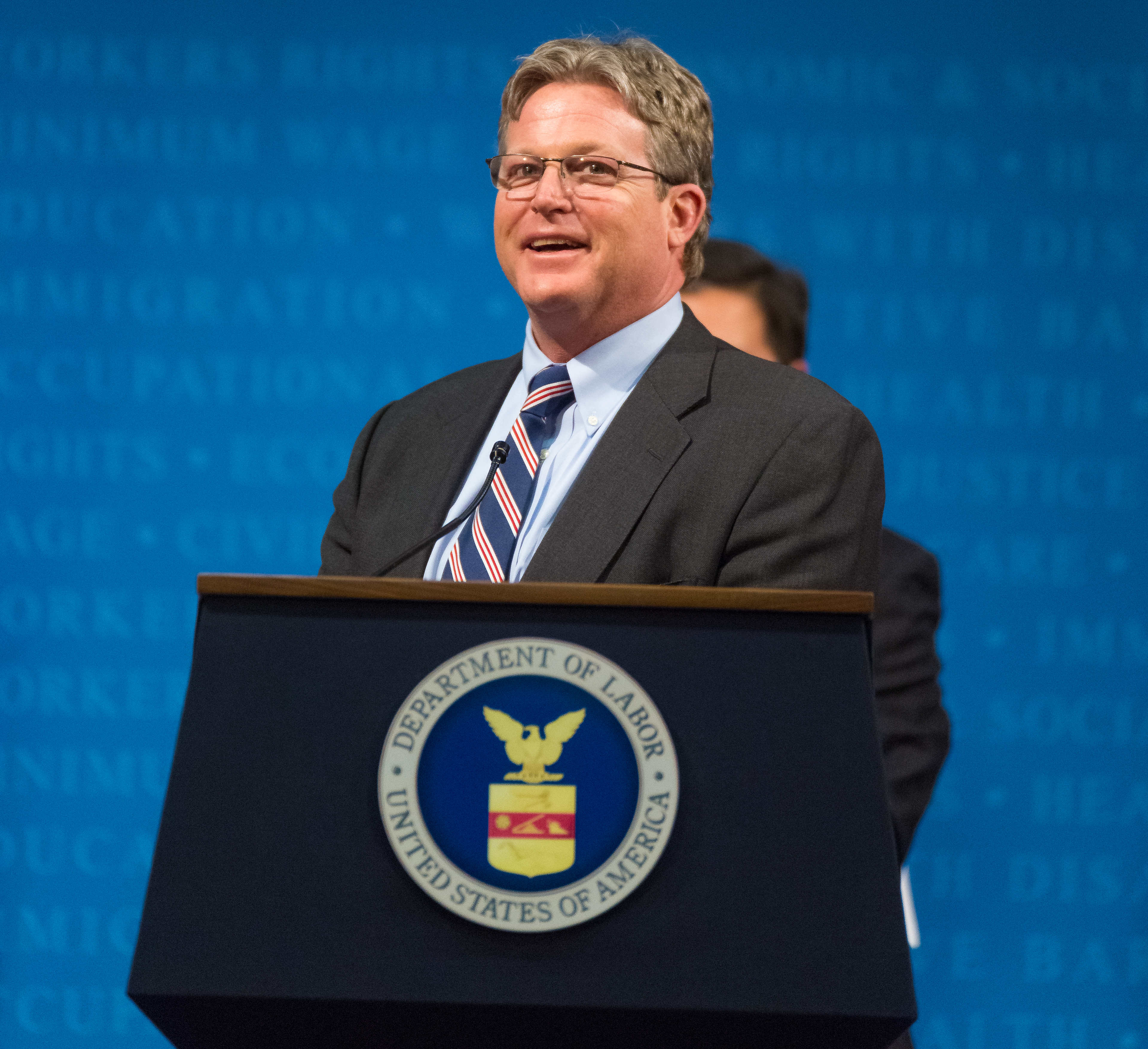 12 March 2015 - Washington, DC - Secretary of Labor Thomas Perez presides over the induction ceremony of Senator Edward “Ted” Kennedy into the Department of Labor Hall of Honor. On hand for the ceremony are Vicki Kennedy, Patrick Kennedy, Ted Kennedy Jr., former DOL Secretary Bill Brock, former DOL Secretary Alexis Herman, former DOL Secretary Elaine Chao and Deputy Secretary Chris Lu. ***Official Department of Labor Photograph*** This official Department of Labor photograph is being made available only for publication by news organizations and/or for personal use printing by the subject(s) of the photograph. The photograph may not be manipulated in any way and may not be used in commercial or political materials, advertisements, emails, products, and/or promotions that in any way suggest approval or endorsement of the Secretary, or the Department of Labor. Photo Credit: U.S. Department of Labor